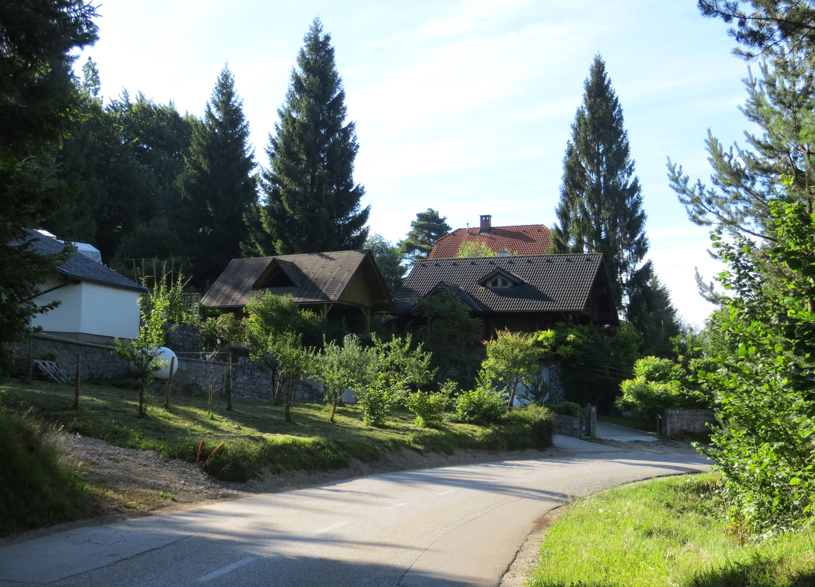 Zapotok, Municipality of Ig, Slovenia